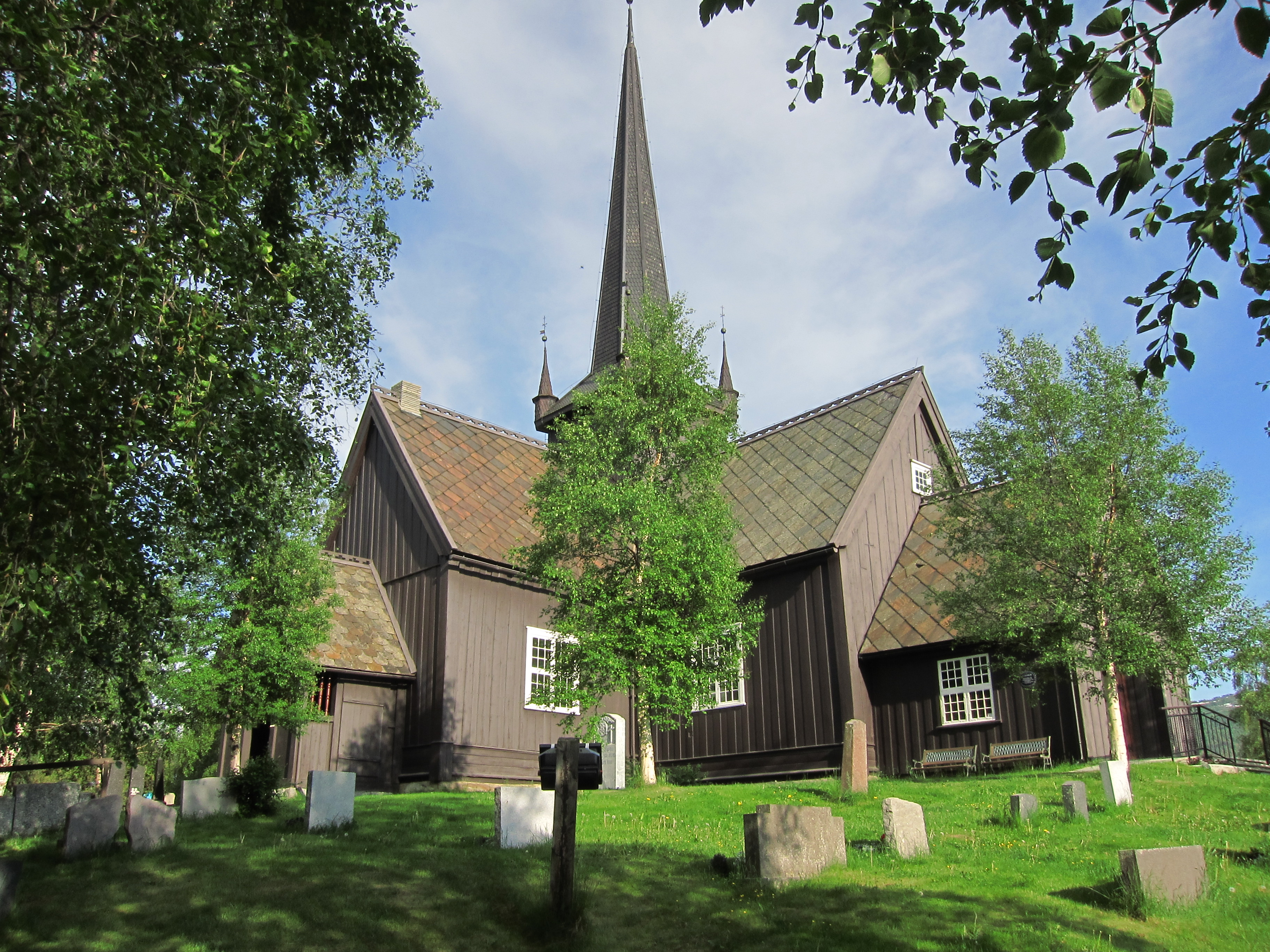 Lesja church seen from northwest towards SW. 584 meters above sea level